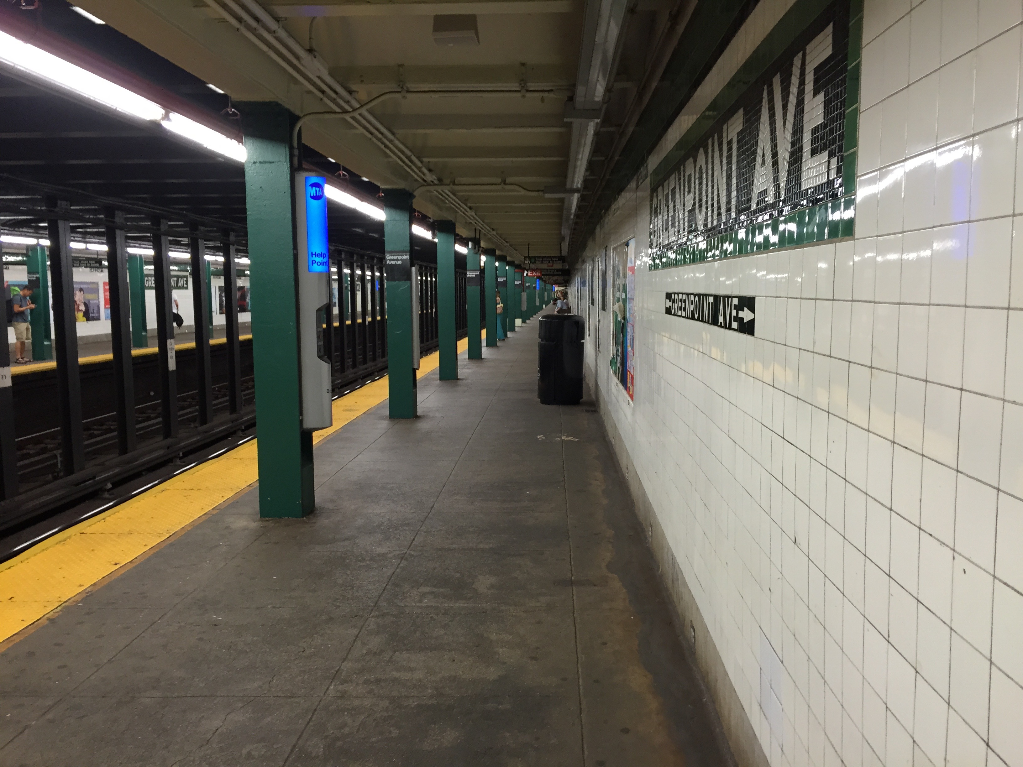 Court Square bound platform at Greenpoint Avenue on the G.